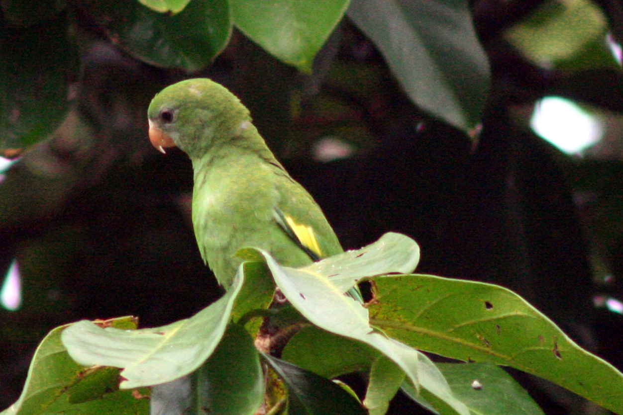 A Canary-winged Parakeet (also known as a White-winged Parakeet) in Leticia, south-east Colombia.